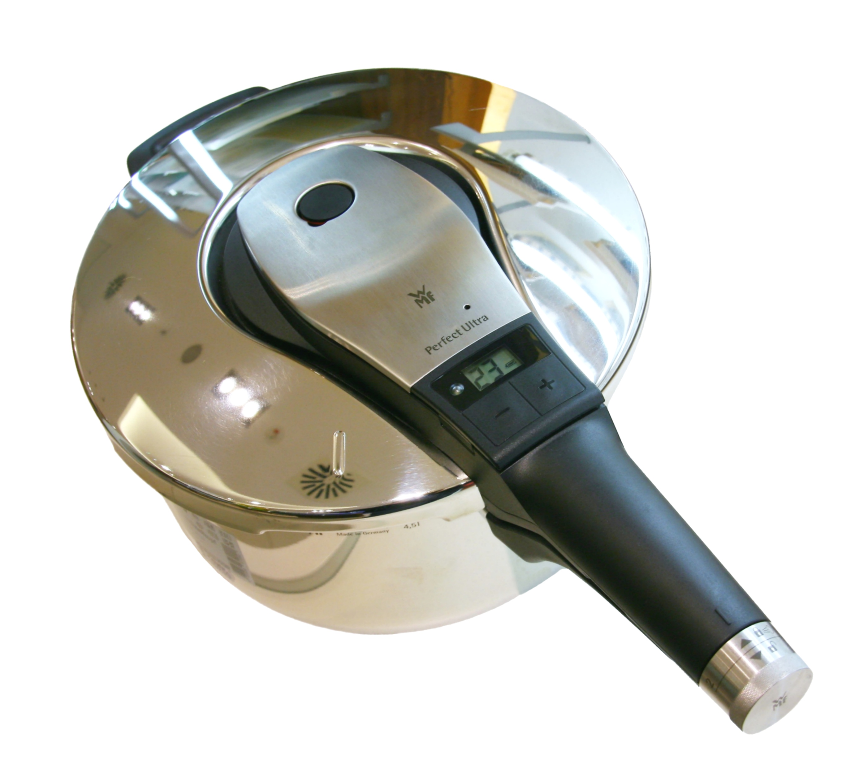 Pressure cooker 4.5 l Perfect Ultra manufactured by WMF